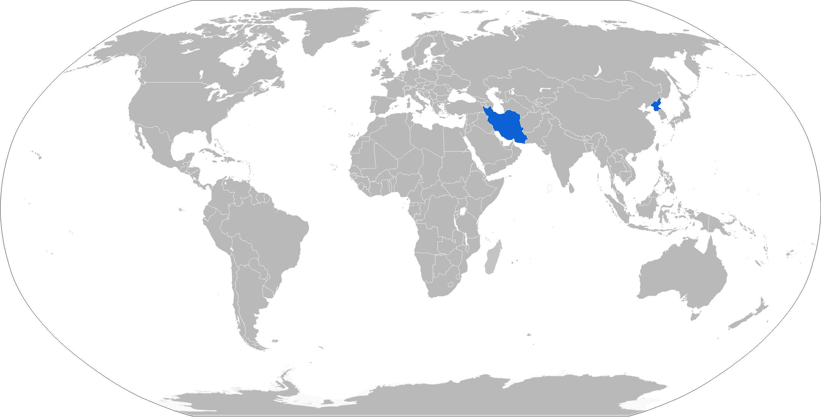 Map of Chonma-ho operators in blue